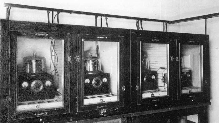 Four precision 100 kHz quartz crystal oscillators maintained by the US Bureau of Standards (now the National Institute of Standards and Technology that served as the frequency standard for the United States in 1929. Built by Bell Telephone Laboratories, where the quartz crystal oscillator was invented in 1923, they achieved a frequency stability of 10-7. The oscillators are enclosed in temperature controlled ovens kept at a precisely constant temperature to prevent thermal expansion and contraction of the quartz resonator, which would cause changes in frequency. The large crystal resonators are mounted under the glass domes visible on top of the units.